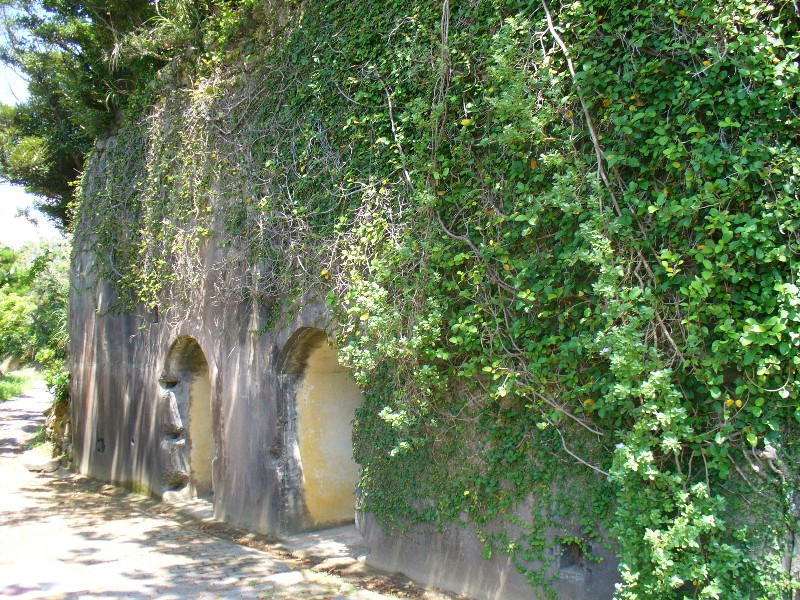 A ruin of arsenal at Ankyaba battery Kakeroma island Setouchi town Kagoshima prefecture, Japan.